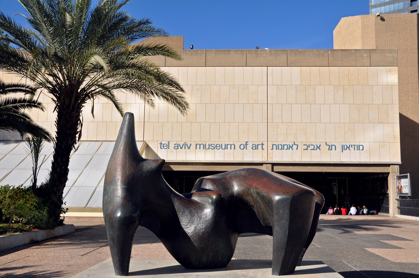 Tel Aviv Museum of Art